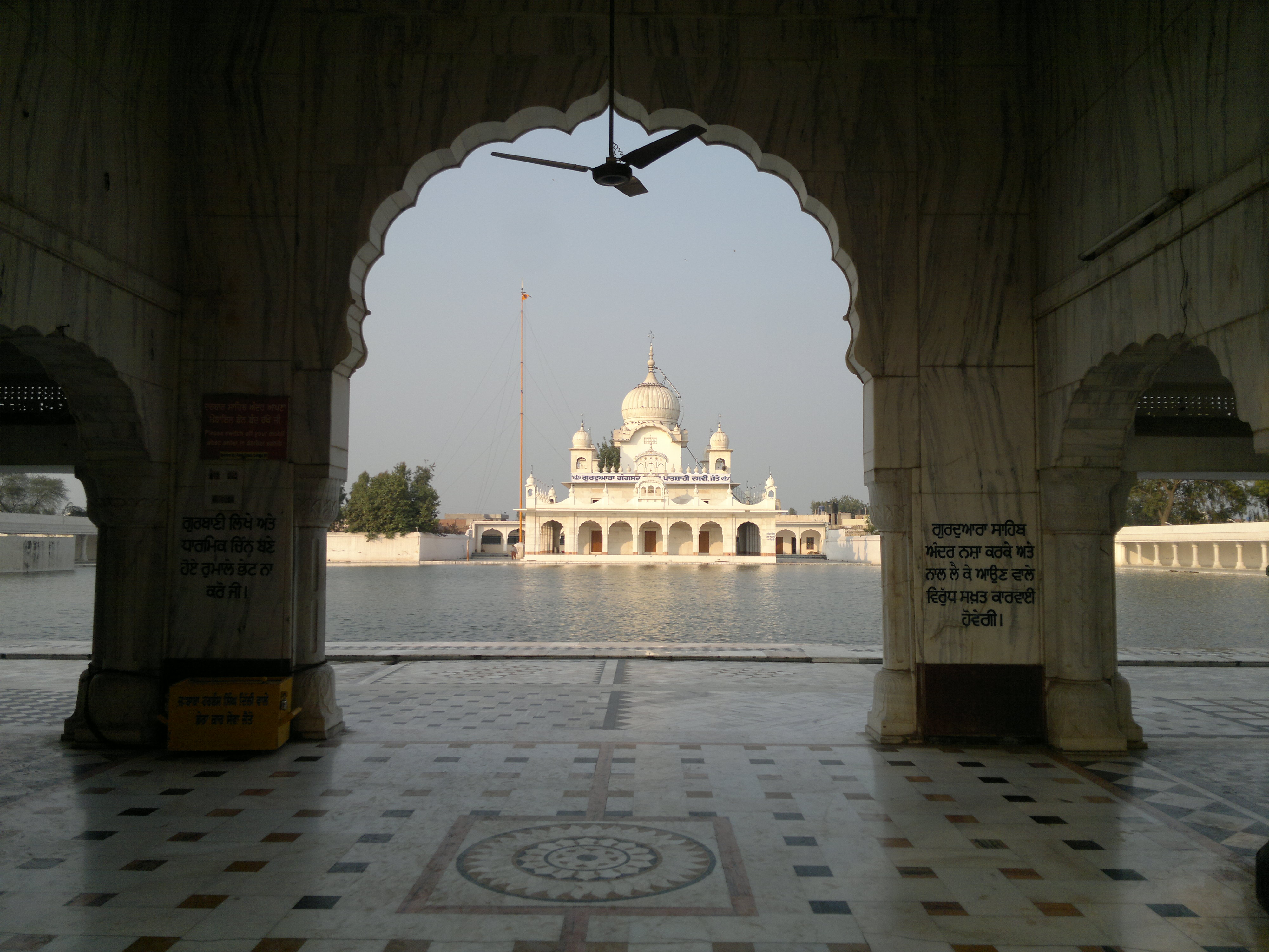 Click of Gurudwara Gangsar @ Jaitu, Punjab, India from North Gate